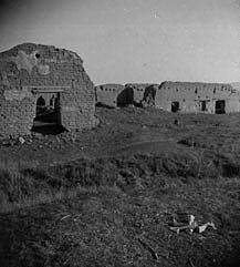 Mission Nuestra Senora de la Soledad — circa 1900. near Soledad, Monterey County, California. Photograph by Keystone-Mast Company.